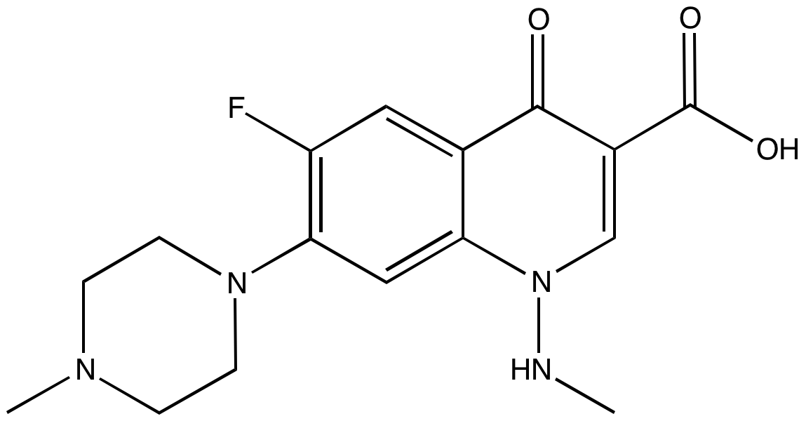 Structure of amifloxacin